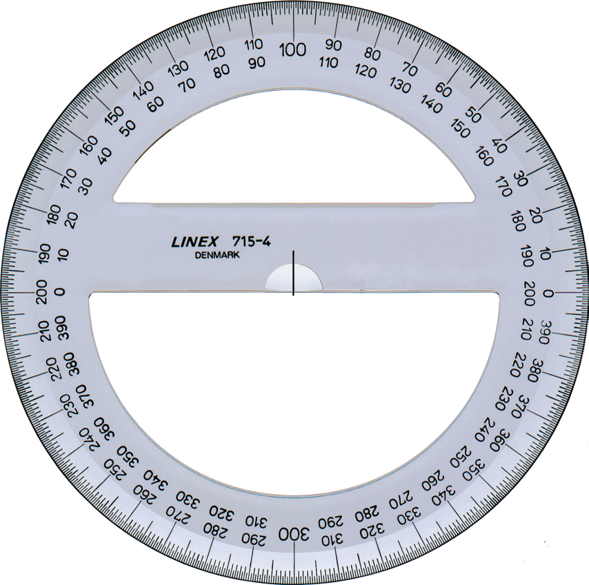 Circular protractor marked in grads